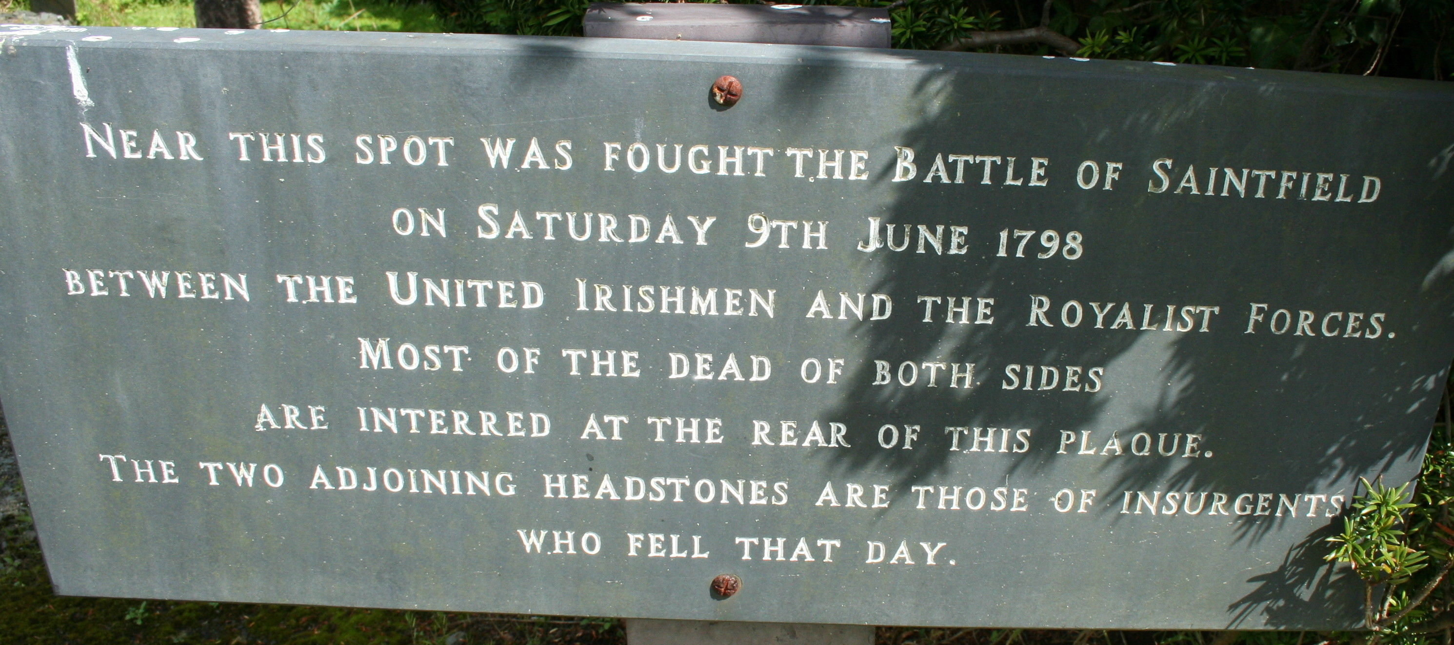 United Irishmen plaque Saintfield Credit: A Peter Clarke image